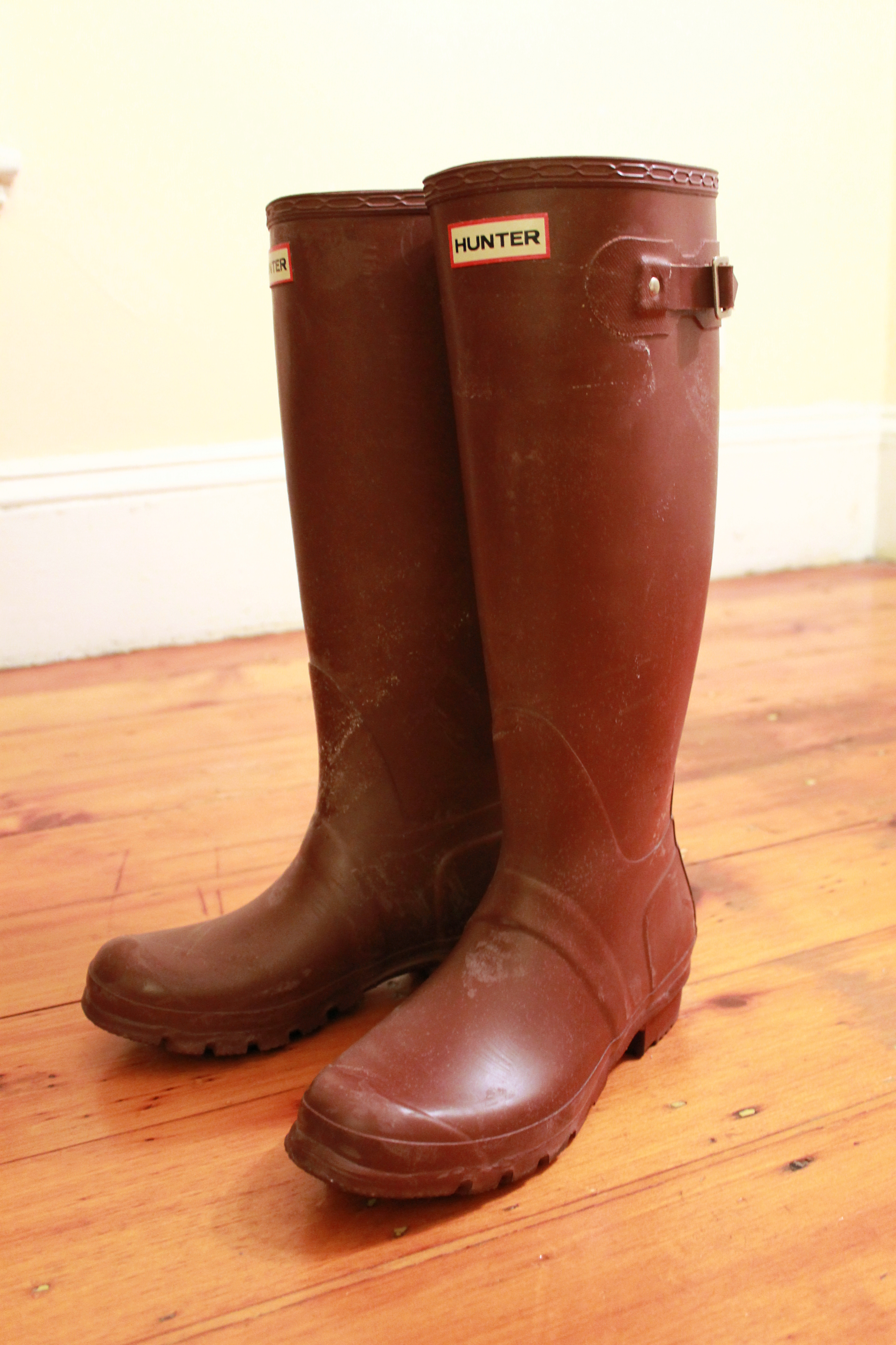 Hunter rainboots